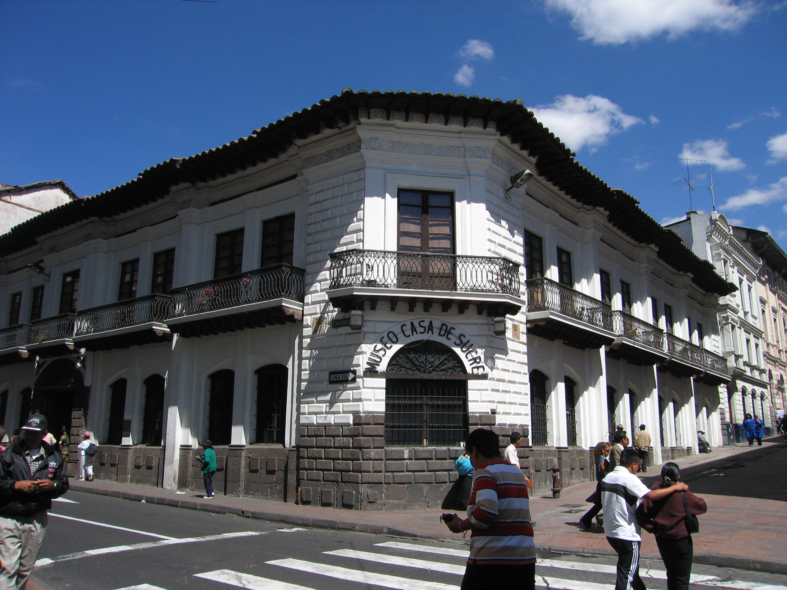 Photo by Yosemite.